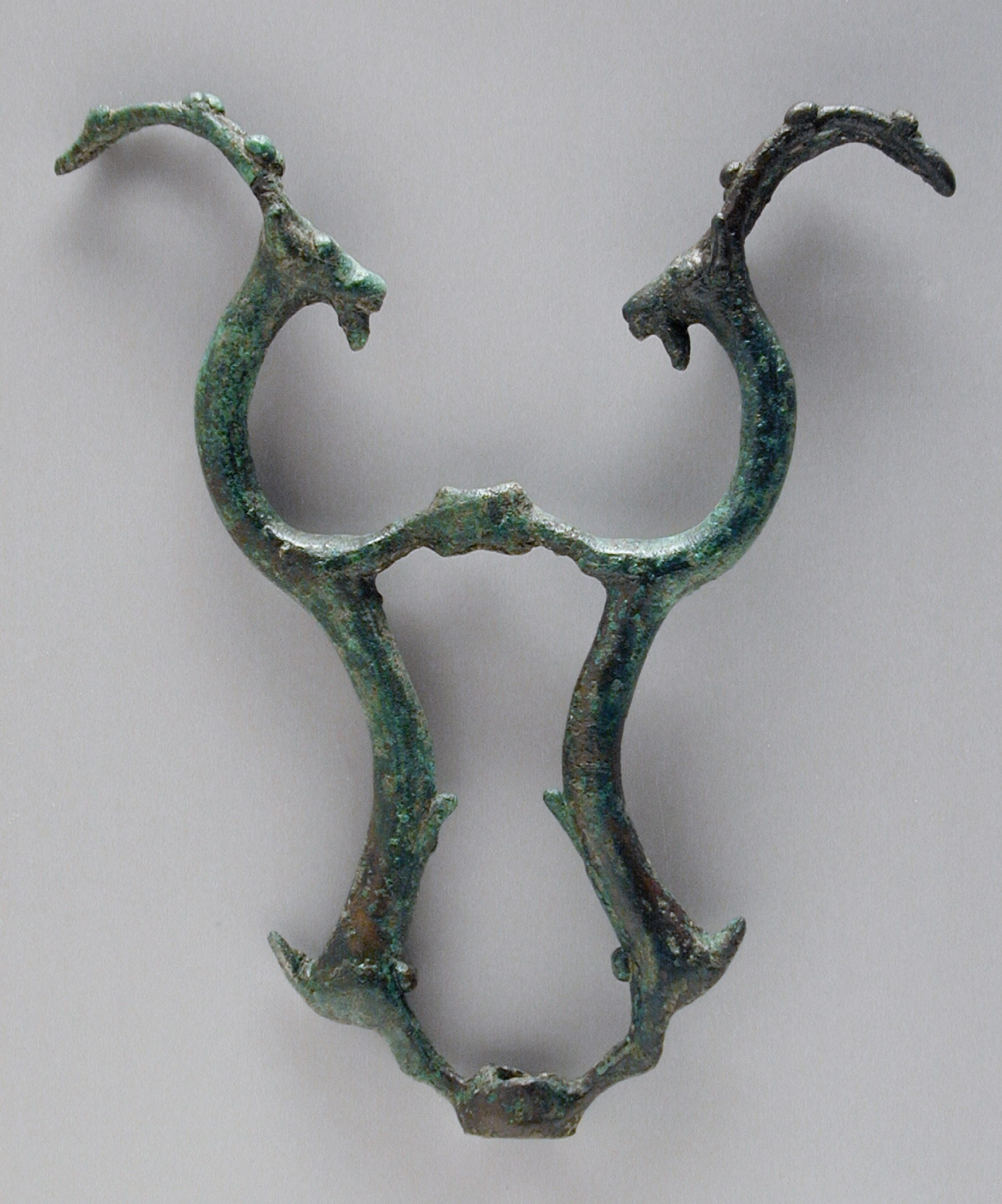 Iran, Luristan, Luristan bronzes, circa 1350-800 B.C. Architecture; Architectural Elements Bronze, cast 5 1/4 x 4 1/2 in. (13.2 x 11.5 cm) The Nasli M. Heeramaneck Collection of Ancient Near Eastern and Central Asian Art, gift of The Ahmanson Foundation (M.76.97.52) Art of the Ancient Near East